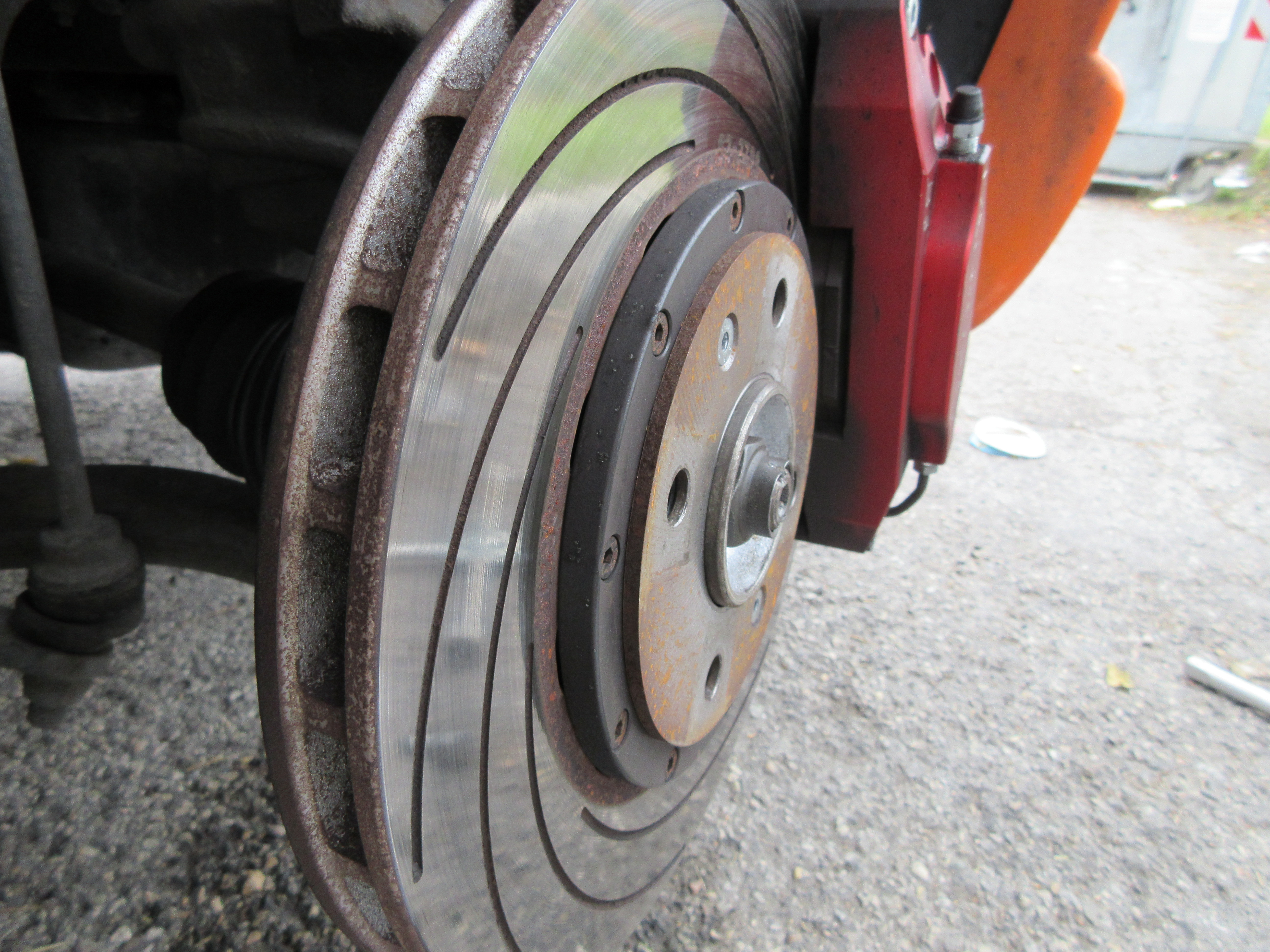 Subject: Upgraded disc brake (283 mm) in my Peugeot 106 Author: Luc106 Date:November 14th, 2015 I release all rights in the public domain. Licensing